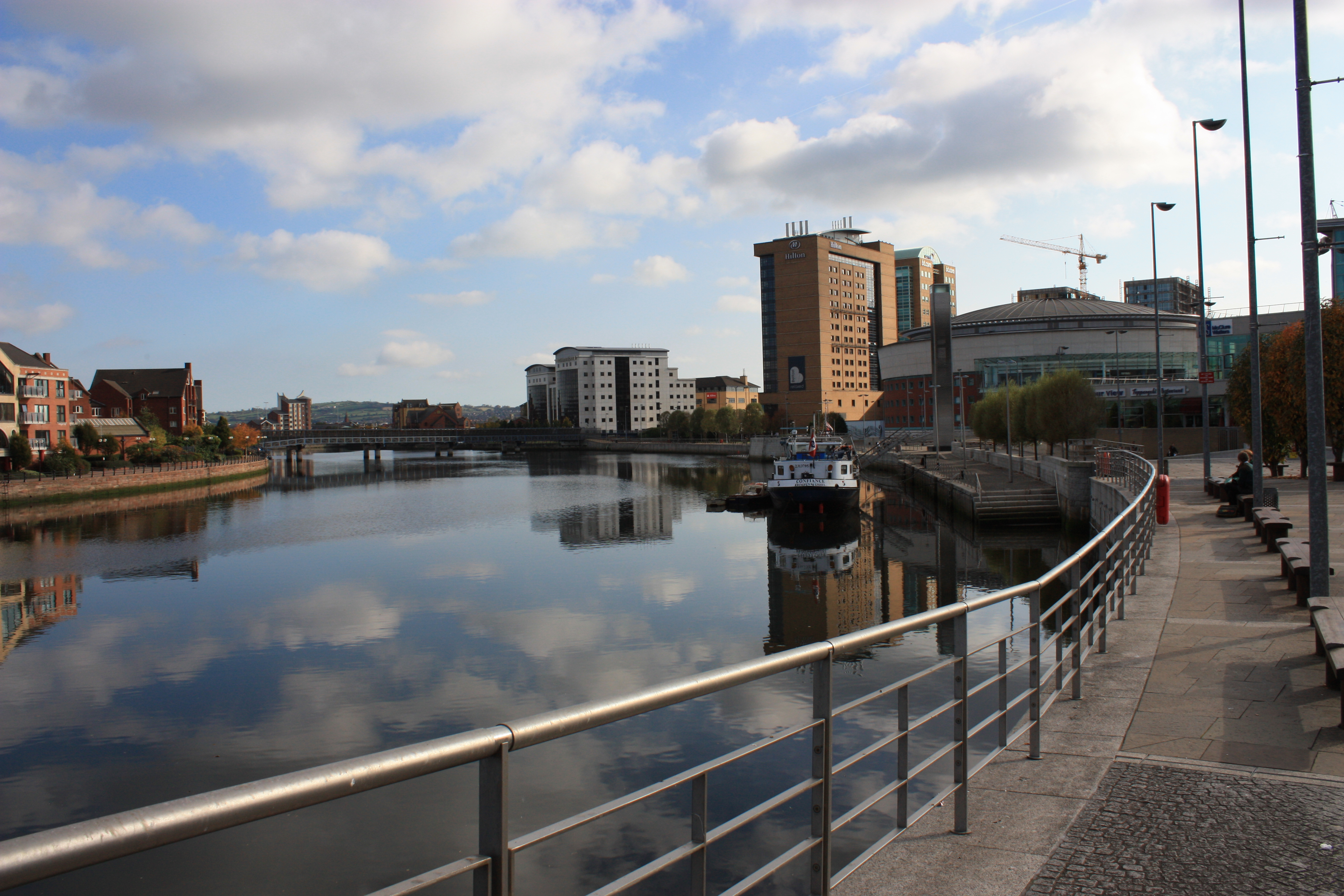 River Lagan (from Thanksgiving Square), Belfast, Northern Ireland, October 2009